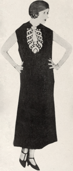 Natacha Rambova in a dress by Paul Poiret